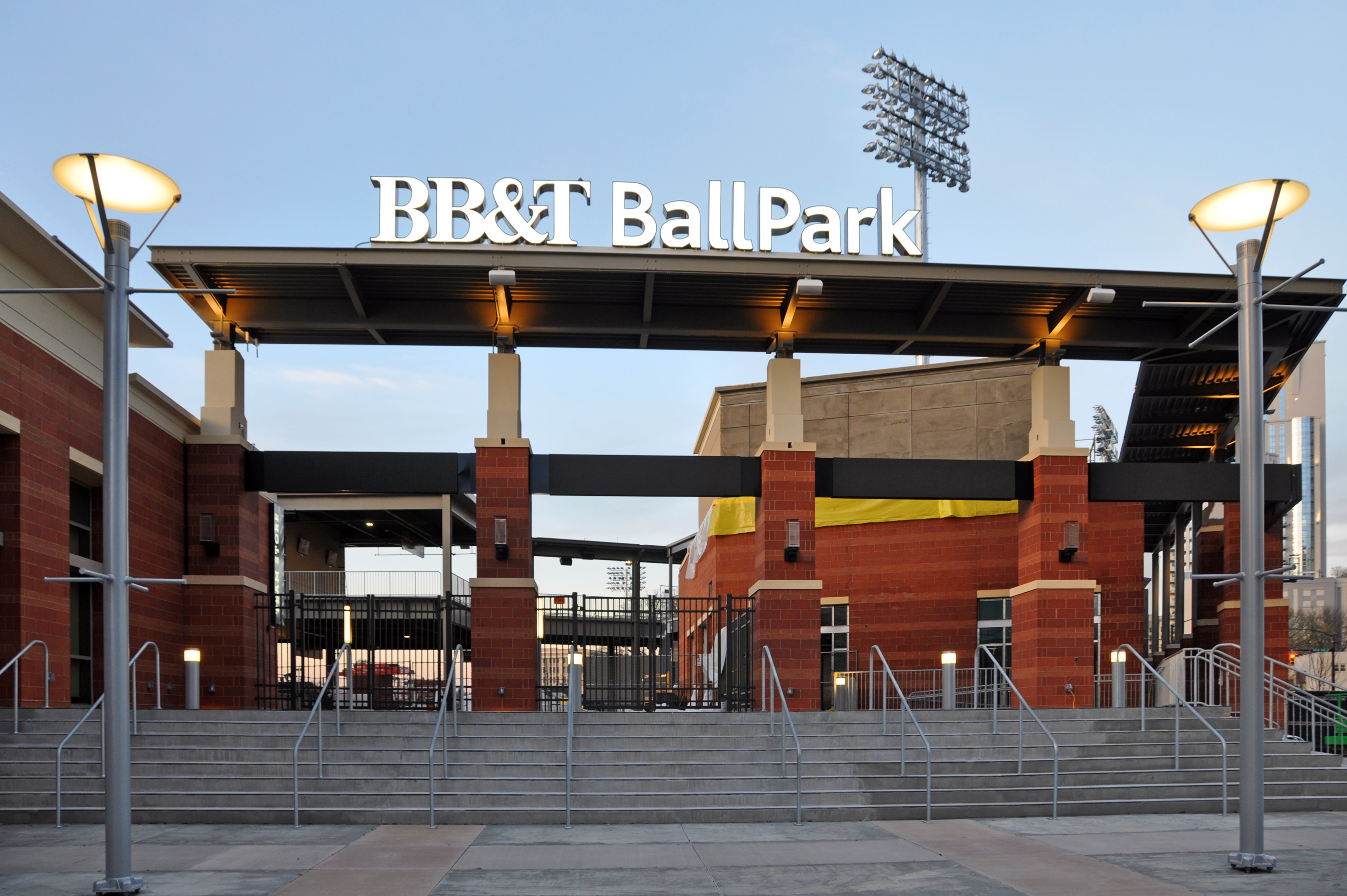 BB&T Ballpark in Uptown Charlotte, North Carolina